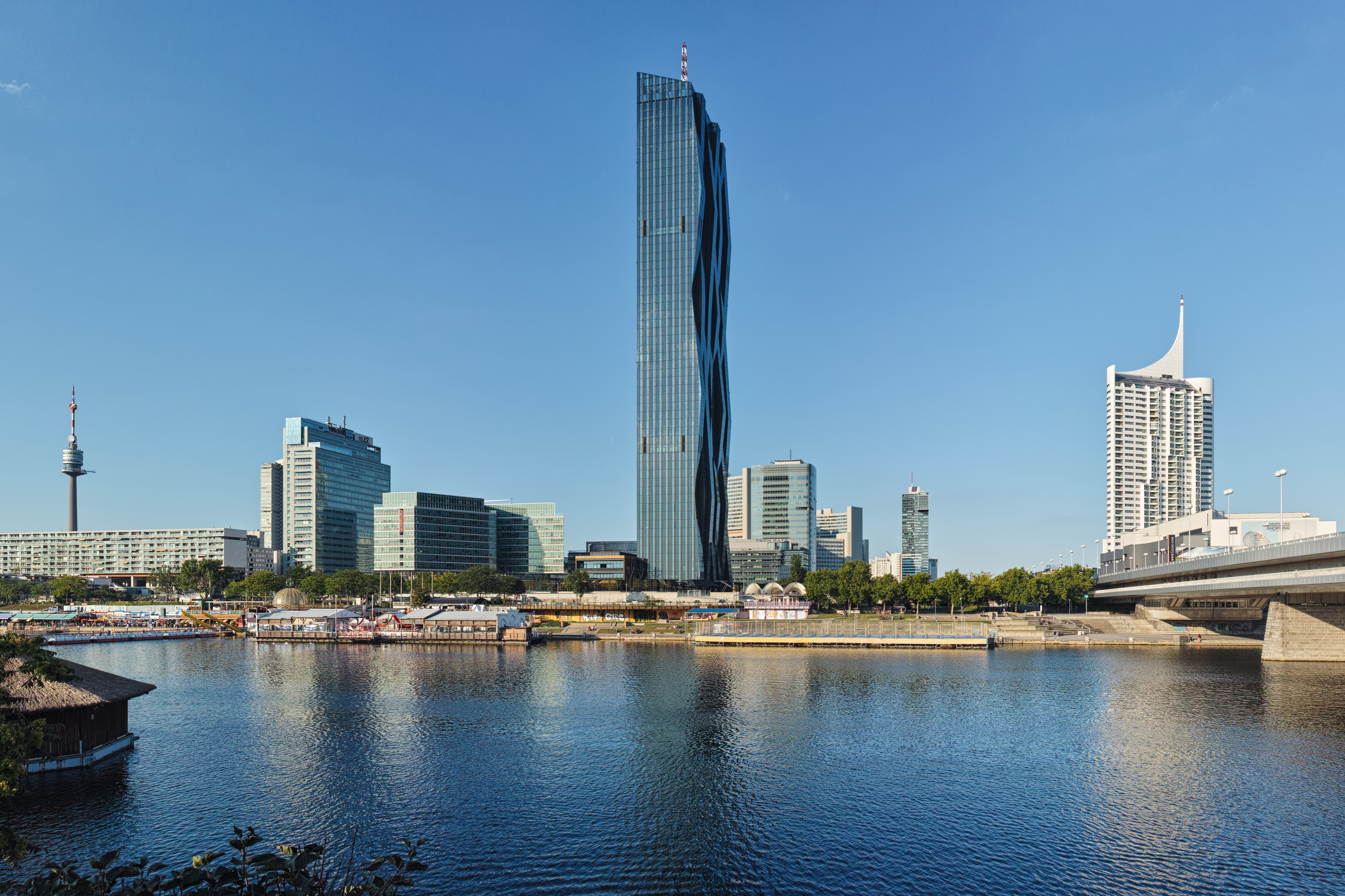 The Donau City in Vienna, with the tallest building in Austria the DC Tower 1, seen from the Donauinsel on August 28, 2014.